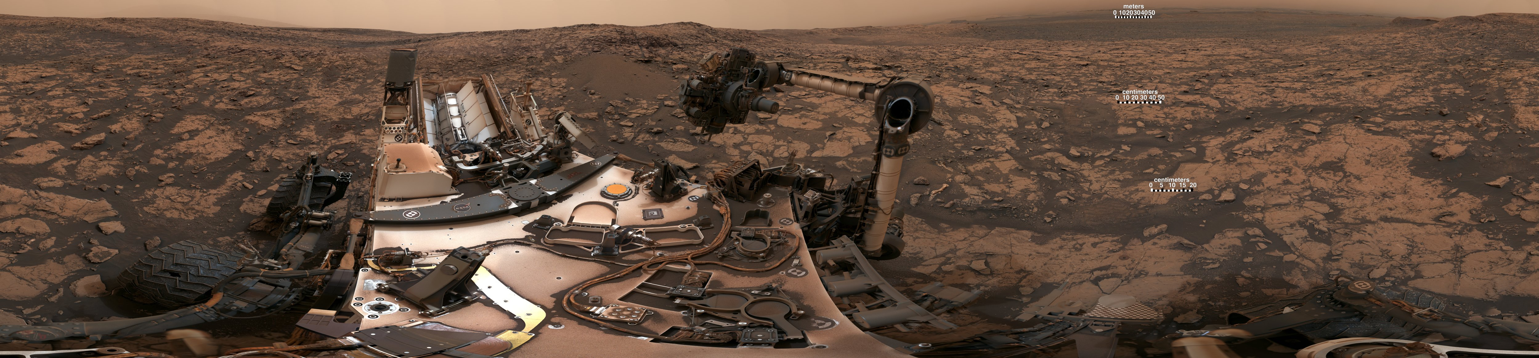 PIA22545: Panorama of Vera Rubin Ridge - Mars Curiosity Rover - August 9, 2018[1] NASA's Curiosity rover surveyed its surroundings on Aug. 9, 2018, showing its current location on Mars' Vera Rubin Ridge. The panorama includes skies darkened by a fading global dust storm and a rare view of the rover itself. After snagging a new rock sample on August 9, 2018 (Sol 2137), NASA's Curiosity rover surveyed its surroundings on Mars, producing a 360-degree panorama of its current location on Vera Rubin Ridge. The scene is presented with a color adjustment that approximates white balancing, to resemble how the rocks and sand would appear under daytime lighting conditions on Earth. Two versions are included here: one with scale bars, and one without. The panorama includes umber skies, darkened by a fading global dust storm. It also includes a rare view by the Mast Camera of the rover itself, revealing a thin layer of dust on Curiosity's deck. In the foreground is the rover's most recent drill target, named "Stoer" after a town in Scotland near where important discoveries about early life on Earth were made in lakebed sediments. More information about Curiosity is online at and References ↑ Good, Andrew (September 6, 2018). Curiosity Surveys a Mystery Under Dusty Skies. NASA. Retrieved on September 9, 2018.